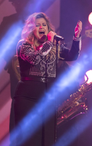 Kelly Clarkson performs during the Closing Ceremony for the 2017 Invictus Games at Air Canada Centre in Toronto on September 30, 2017. The Invictus Games, established by Prince Harry in 2014, brings together wounded and injured veterans from 17 nations for 12 adaptive sporting events, including track and field, wheelchair basketball, wheelchair rugby, swimming, sitting volleyball, and new to the 2017 games, golf. (DoD photo by Roger L. Wollenberg)